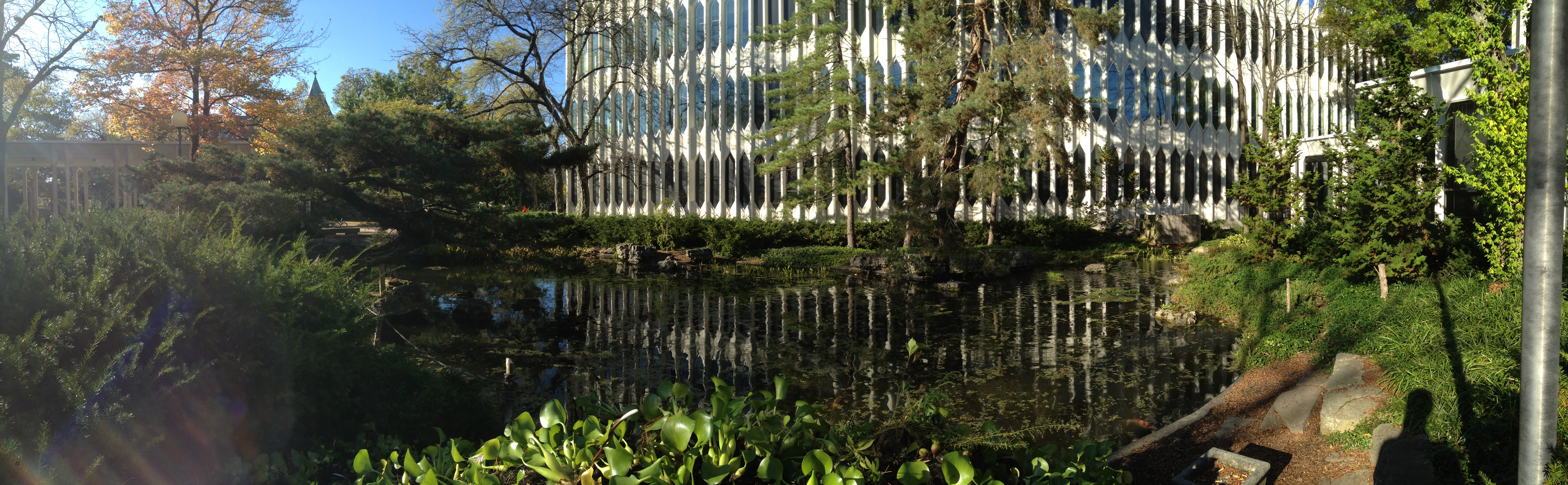 Panorama of Oberlin Conservatory Pond